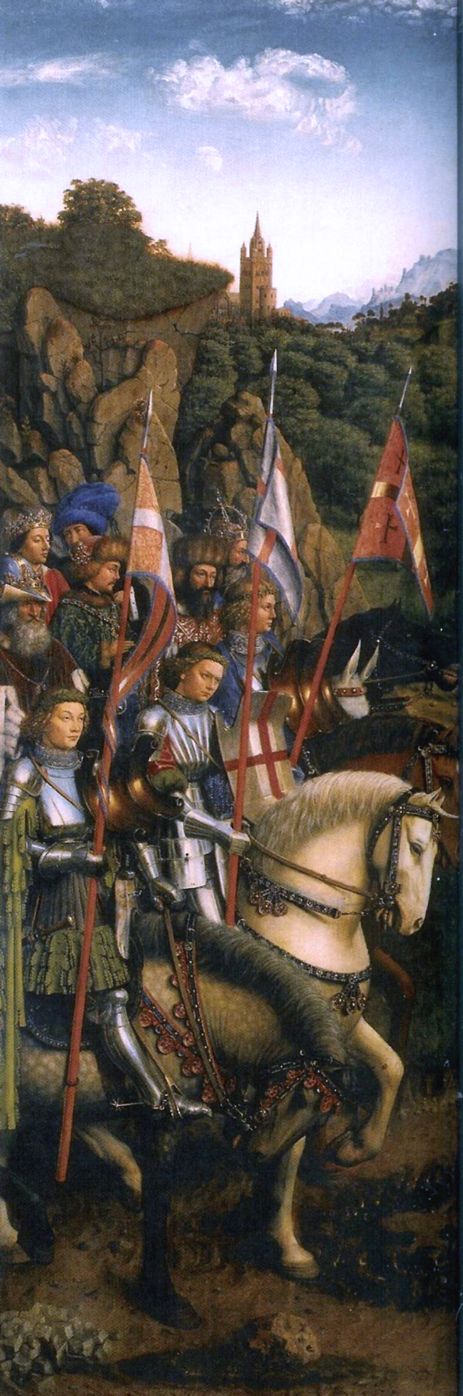 detail: the knights of Christ